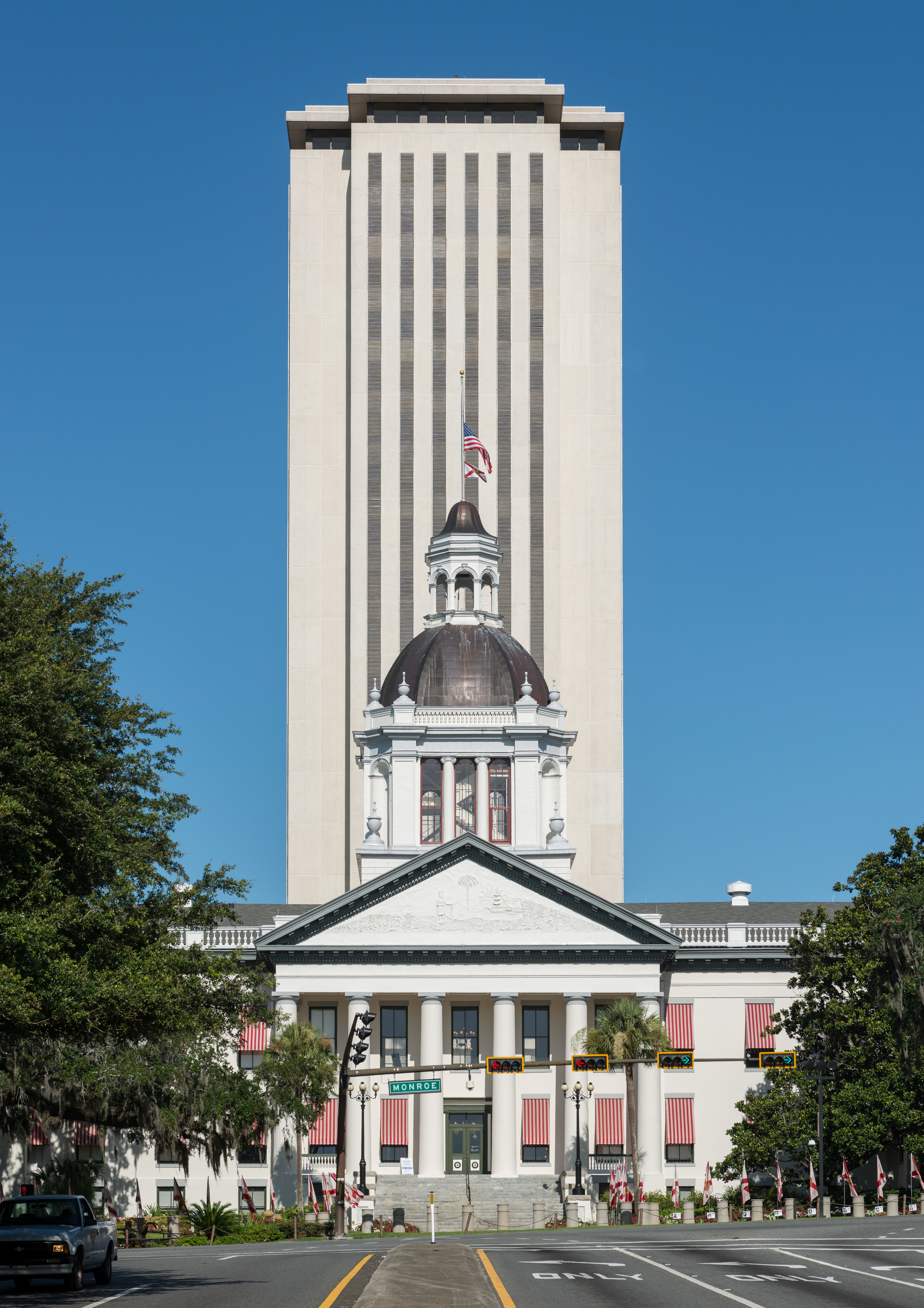 An east view of both the historic and the current Florida State Capitols, Tallahassee